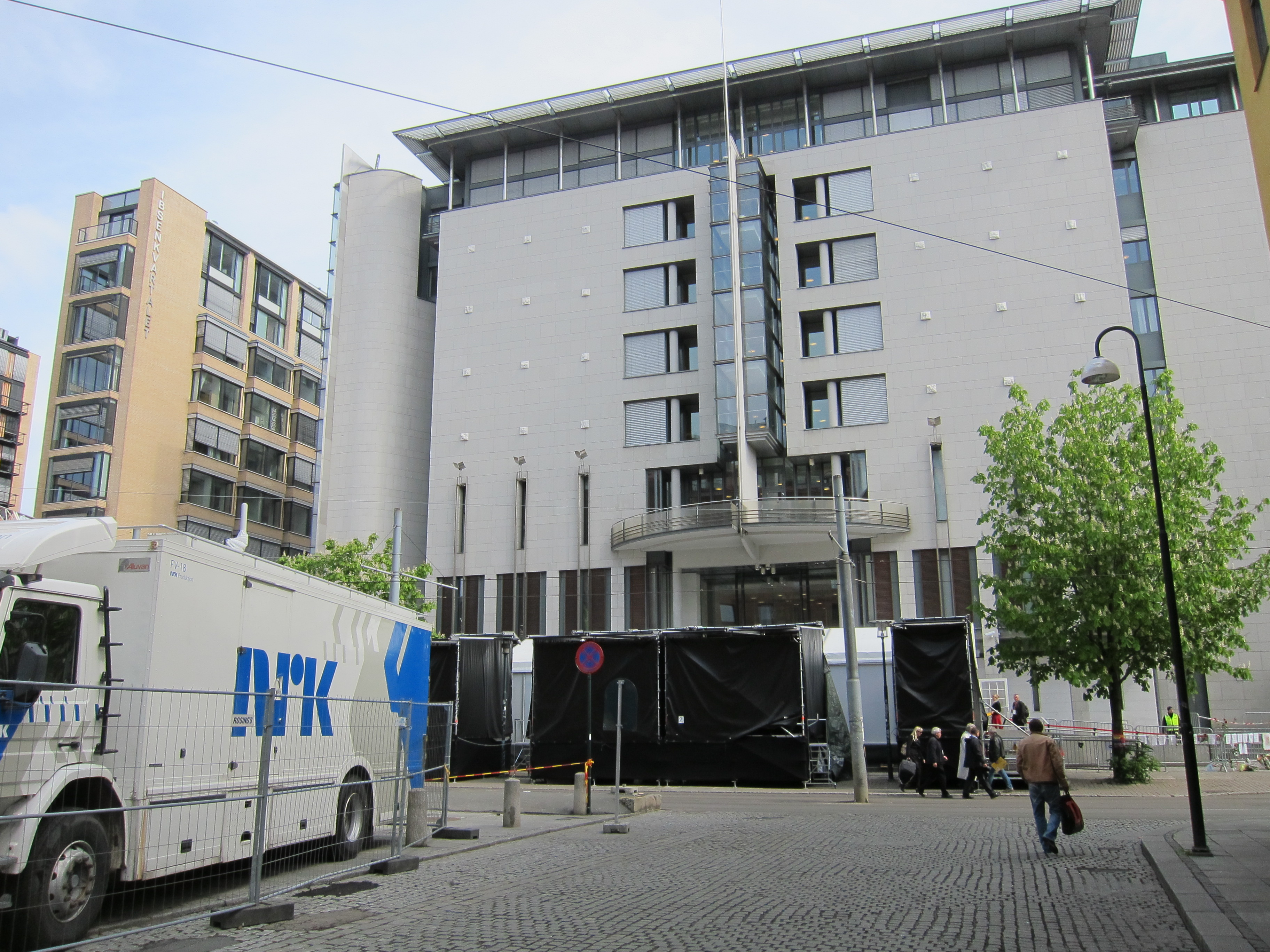 Oslo Tinghus, detail of entrance during the trial of Anders Behring Breivik, massive media attention during the trial.